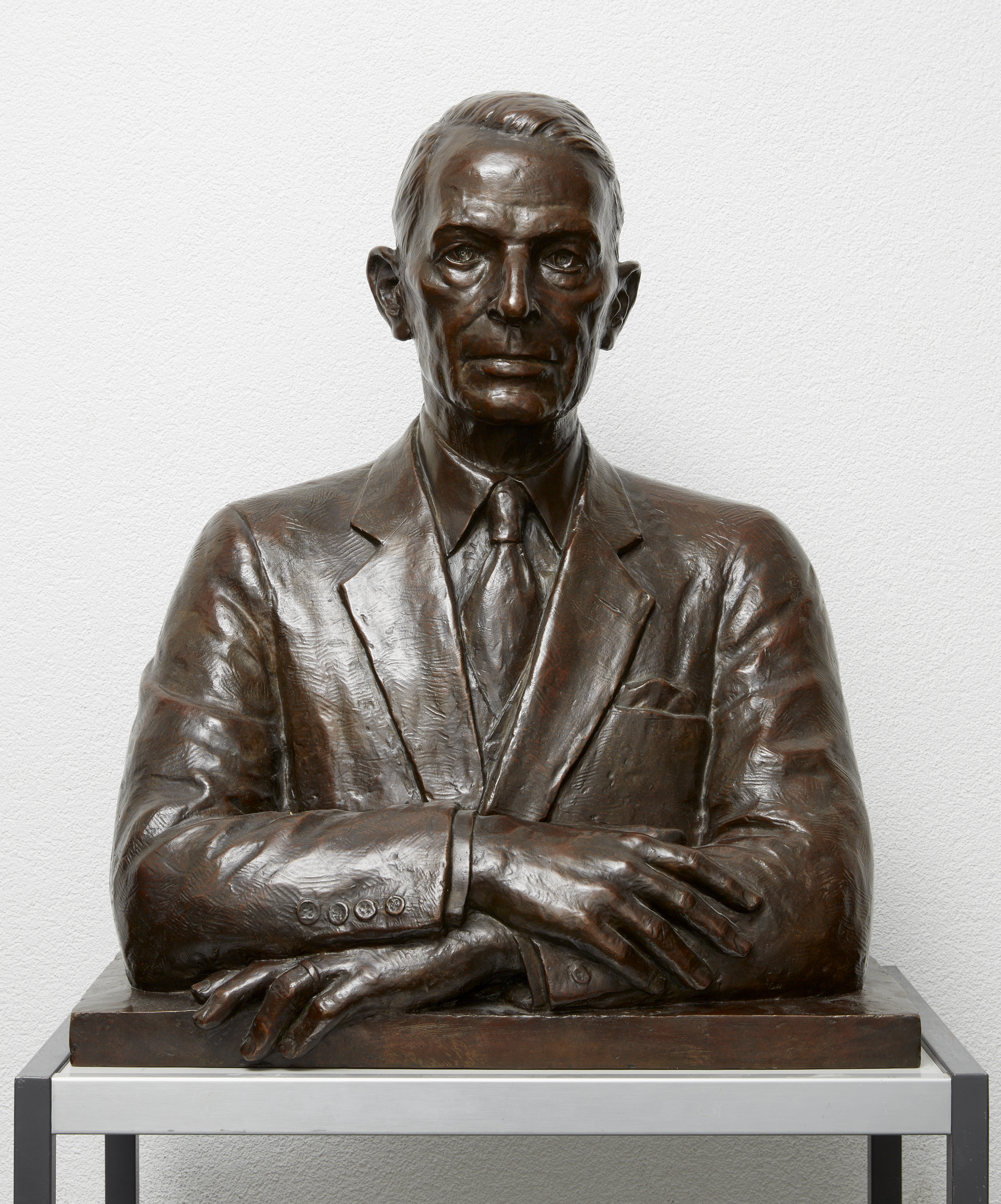 Bust of Othmar Ammann by Wheeler Williams